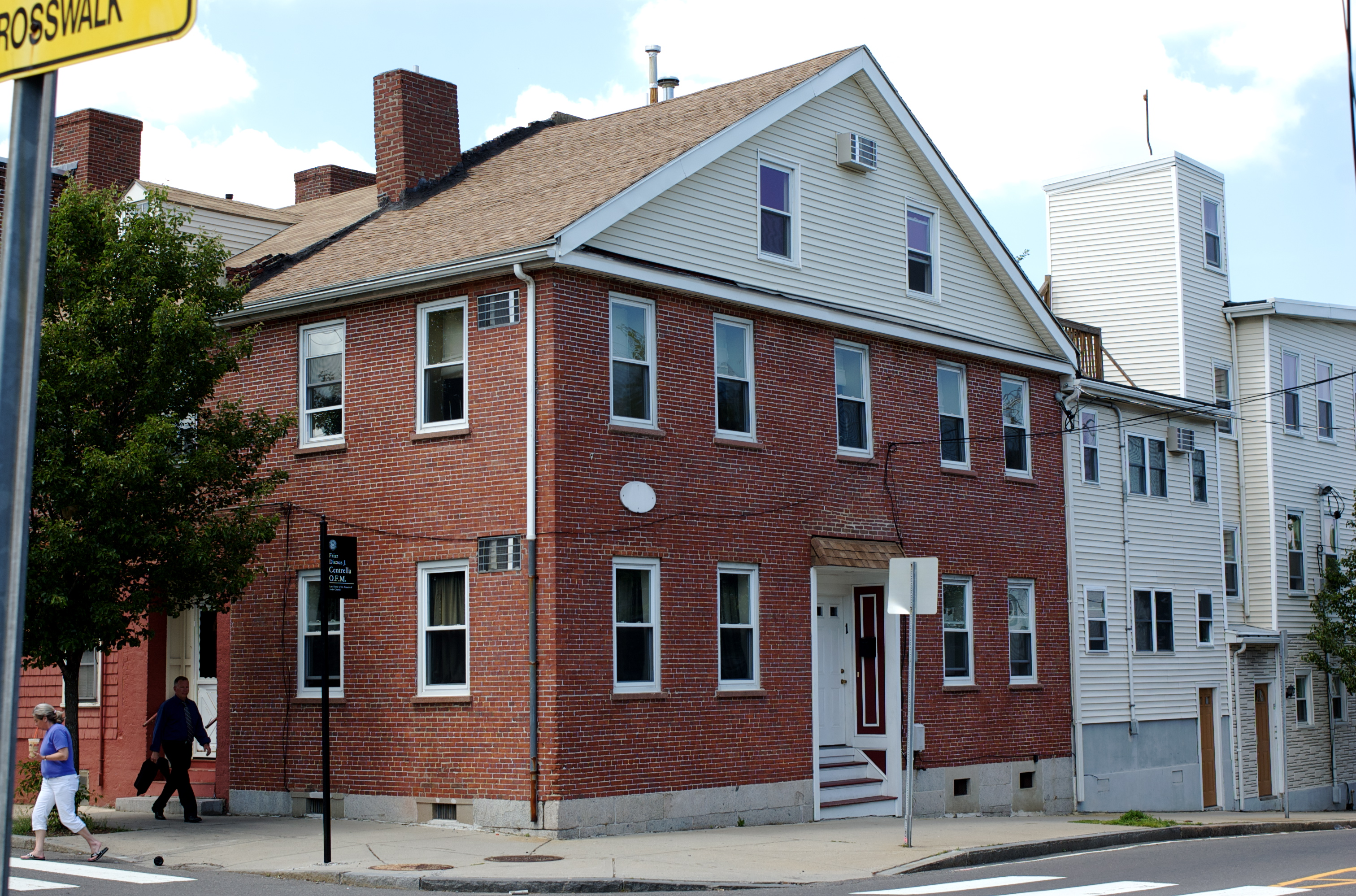 This red brick building is part of the Lechmere Point Corporation Houses, a site on the National Register of Historic Places. The entrance to 47 Gore Street is on the left and 25 3rd St is on the right.